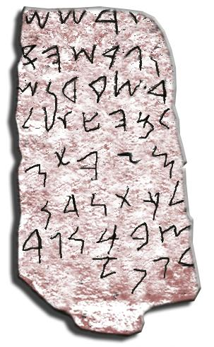 The so-called Nora Stone, the most ancient phoenician inscription ever found (in 1773) outside Phoenicia proper. Exhibitedy at the entrance of second floor of the Museo Archeologico Nazionale at Cagliari. Photo by Giovanni Dall'Orto, November 11 2016.